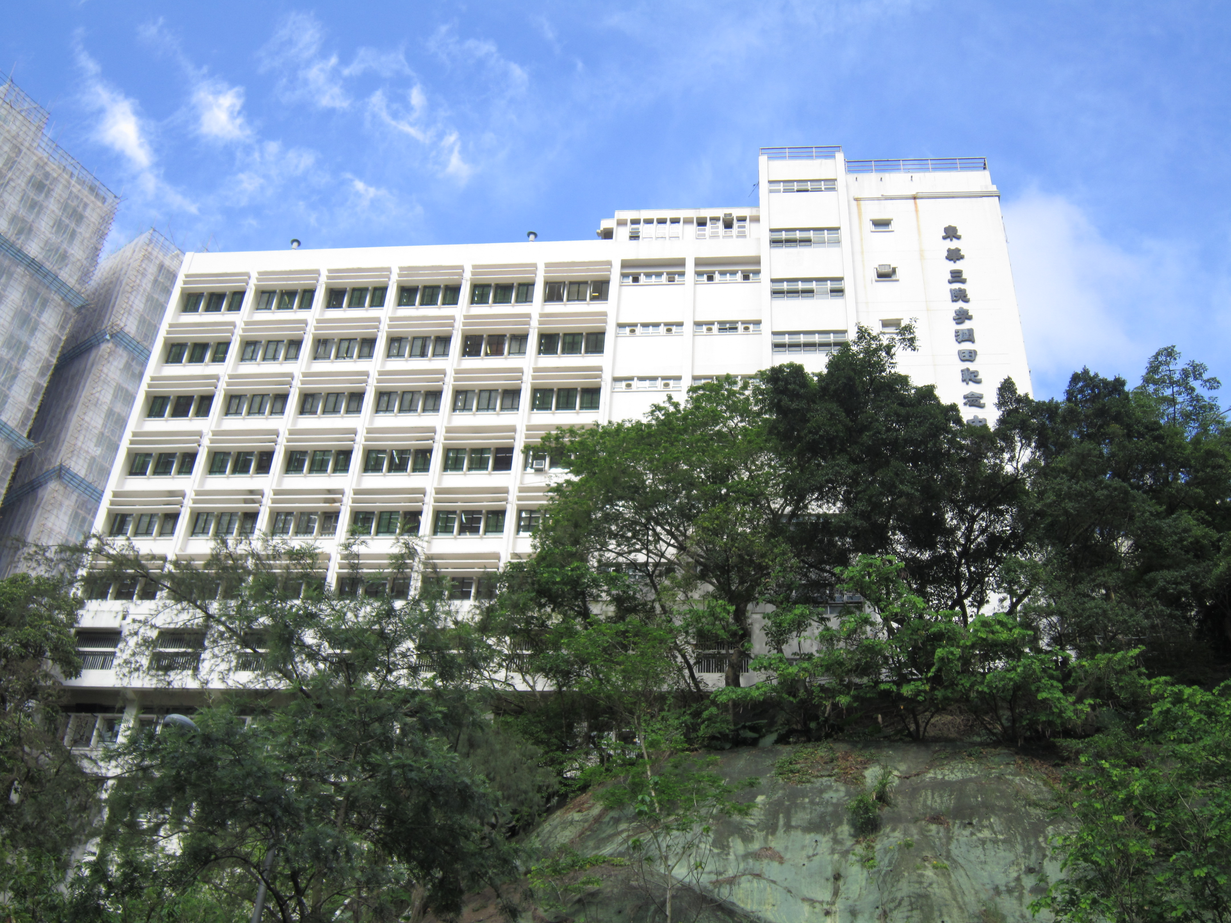 Campus of TWGHs LCDMC